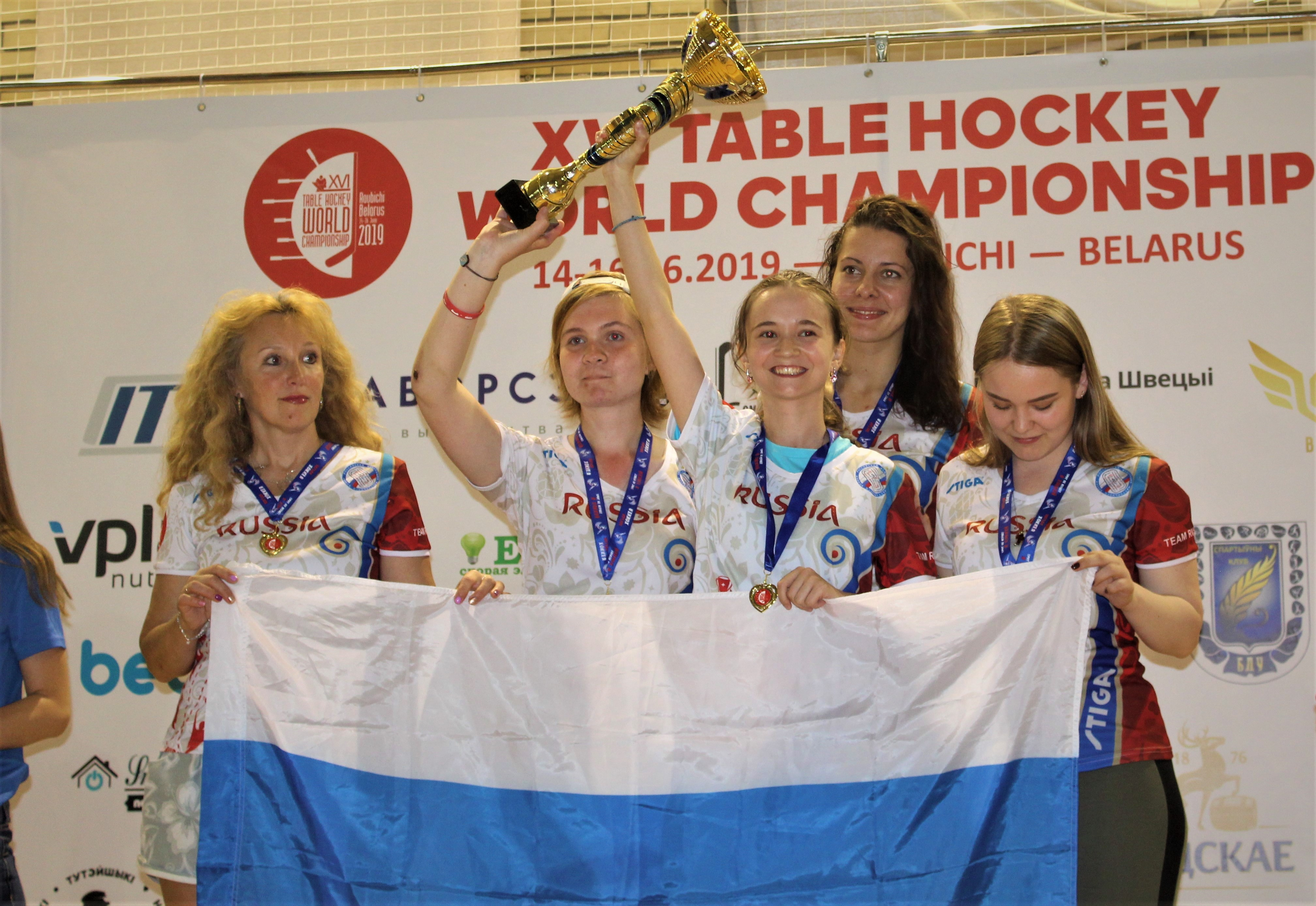 Russian women team in awarding as the new world champions in table hockey at 2019 in Belarus.